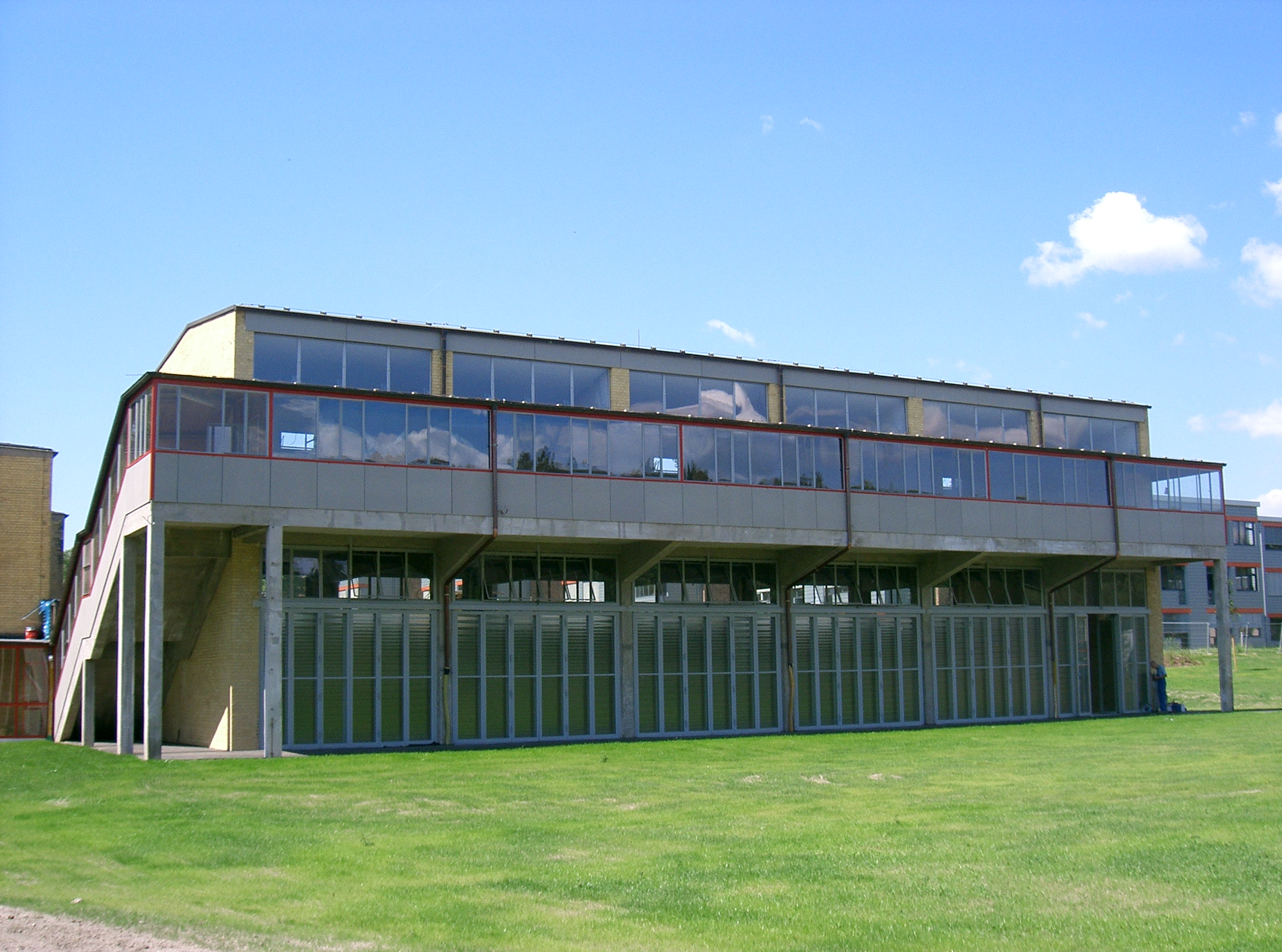 Building complex of the former federal school of the Allgemeinen Deutschen Gewerkschaftsbundes (engl. General German Confederation of Trade Unions) in Bernau bei Berlin. Here the lecture halls (back side).